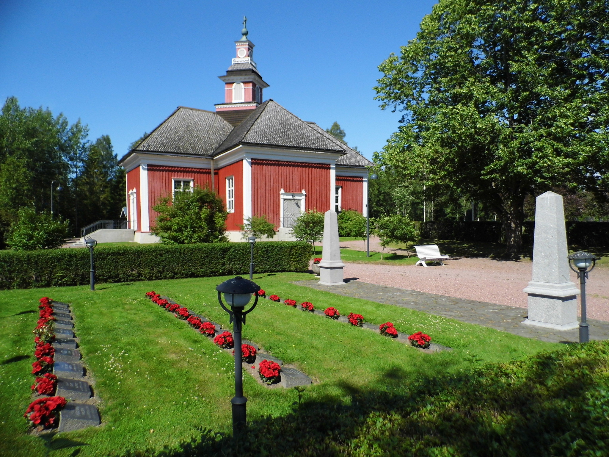 Military cemetary at church in Petolahti, Finland